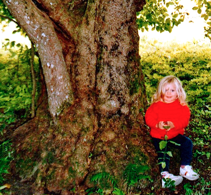 cornus mas tree with little girl - Sigrid Dirndl